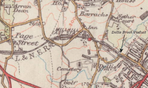 1934 Ordnance Survey map marked-up to show the location of the Dollis Brook Viaduct